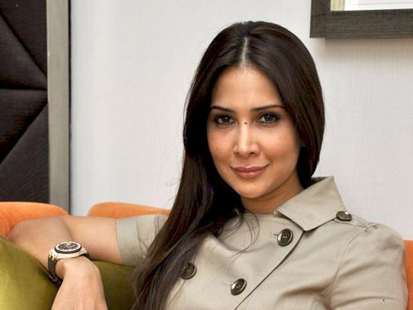 Kim sharma